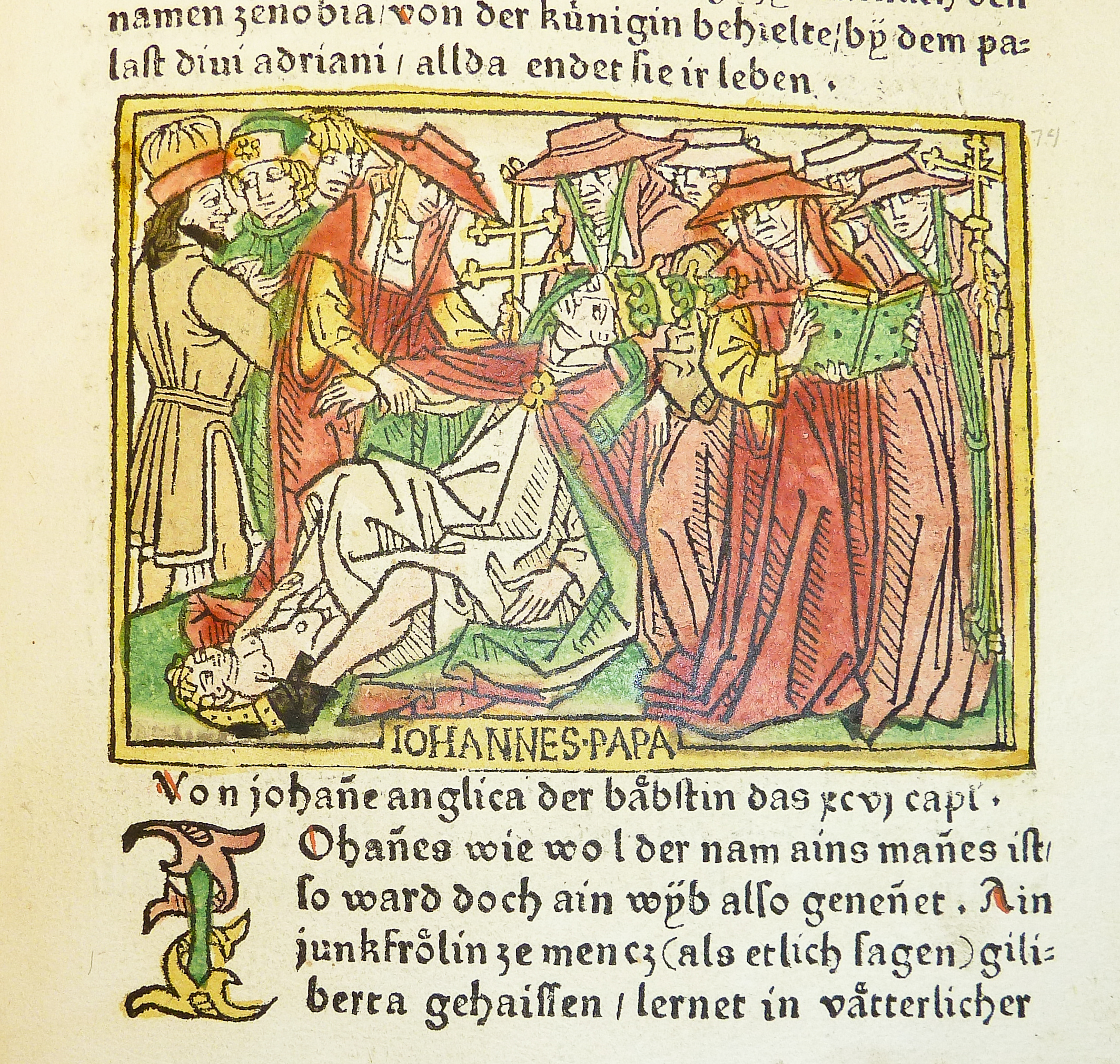 Woodcut illustration (leaf [p]4r, f. cxxxiiii) of Pope Joan, hand-colored in red, green, yellow and black, from an incunable German translation by Heinrich Steinhöwel of Giovanni Boccaccio's De mulieribus claris, printed by Johannes Zainer at Ulm ca. 1474 (cf. ISTC ib00720000). One of 76 woodcut illustrations (1 on leaf [e]8v dated 1473), each 80 x 110 mm., depicting scenes from the life of the women chronicled (for a full list of subjects, cf. W.L. Schreiber, Handbuch der Holz- und Metallschnitte des XV. Jahrhunderts (Nendeln: Kraus Reprints, 1969), no. 3506). "Pour la première moitie le nom se trouve inscrit à côte de la tête de chaque femme, pour le reste il es ajouté entre les deux réglettes. Il n'y en a que trois, qui n'ont qu'un seul trait carré."--Schreiber. Established form: Zainer, Johannes, ‡d d. 1541?. Established form: Joan (Legendary Pope). Penn Libraries call number: Inc B-720 All images from this book Penn Libraries catalog record